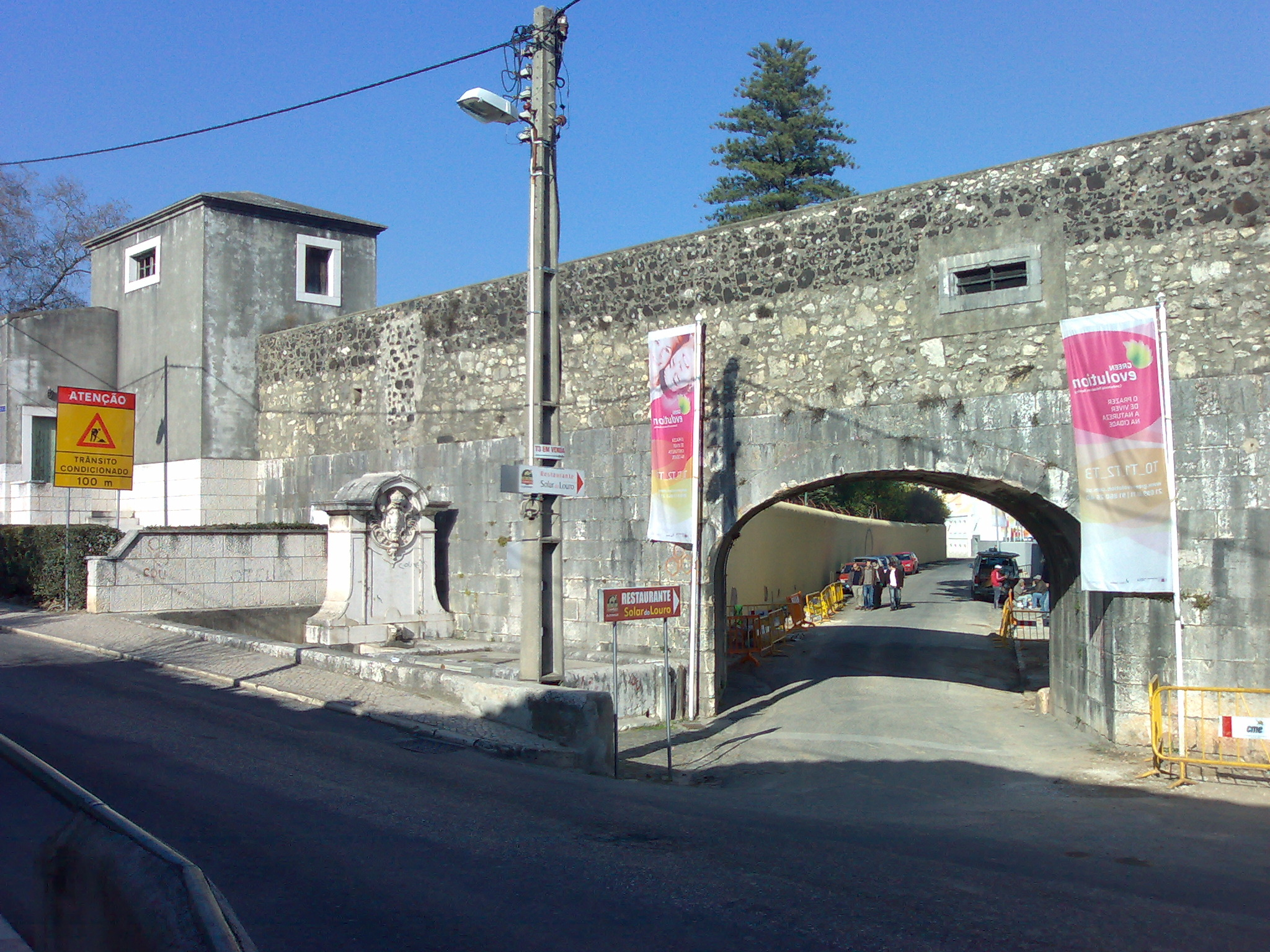 Aqueduto das águas livres, Buraca road, Lisbon, Portugal.